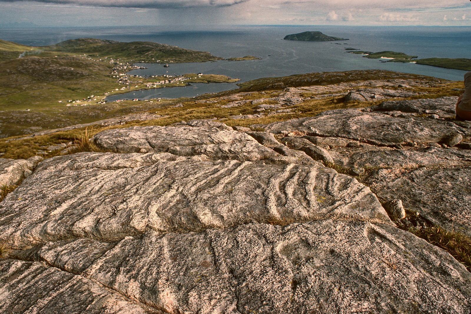 Summit of Beinn Tangabhal The striations in the rock lead the eye to Castlebay and the principal settlement of Barra. Beinn Tangabhal also provides an excellent view southwards over the smaller islands that terminate in Barra Head on Berneray.